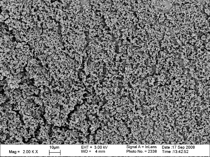 SEm picture of gelatine particles produced by a nano spray dryer.